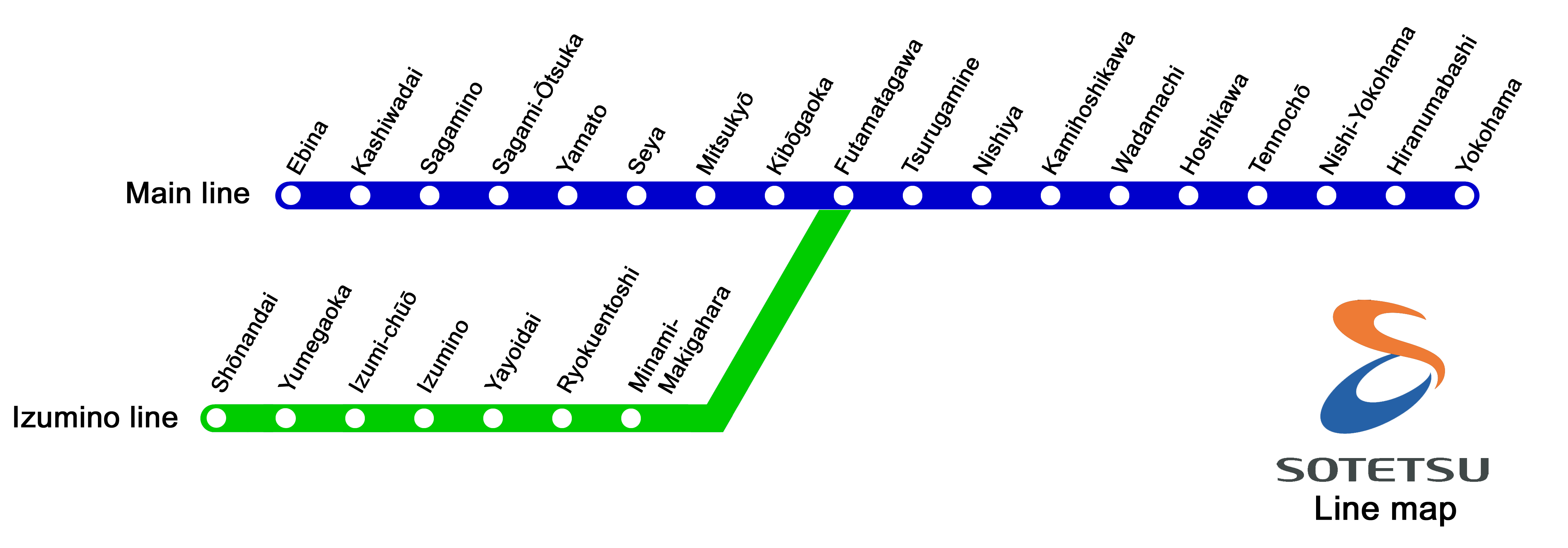 Sagami Railway line map